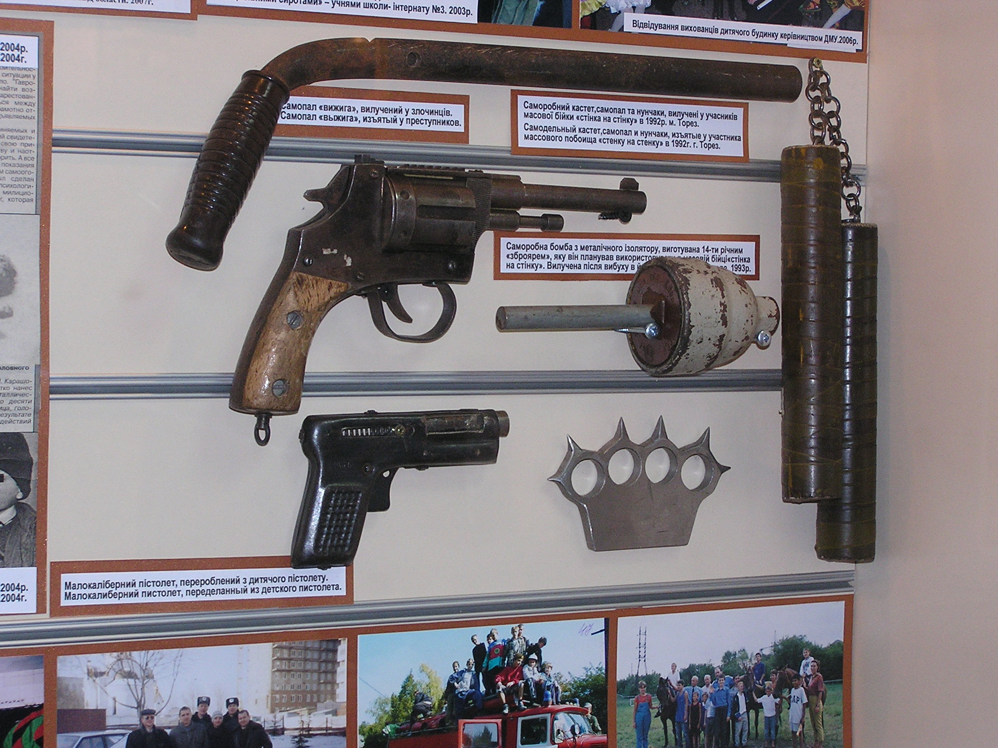 Museum of the History of Donetsk militsiya (Police) - handmade guns